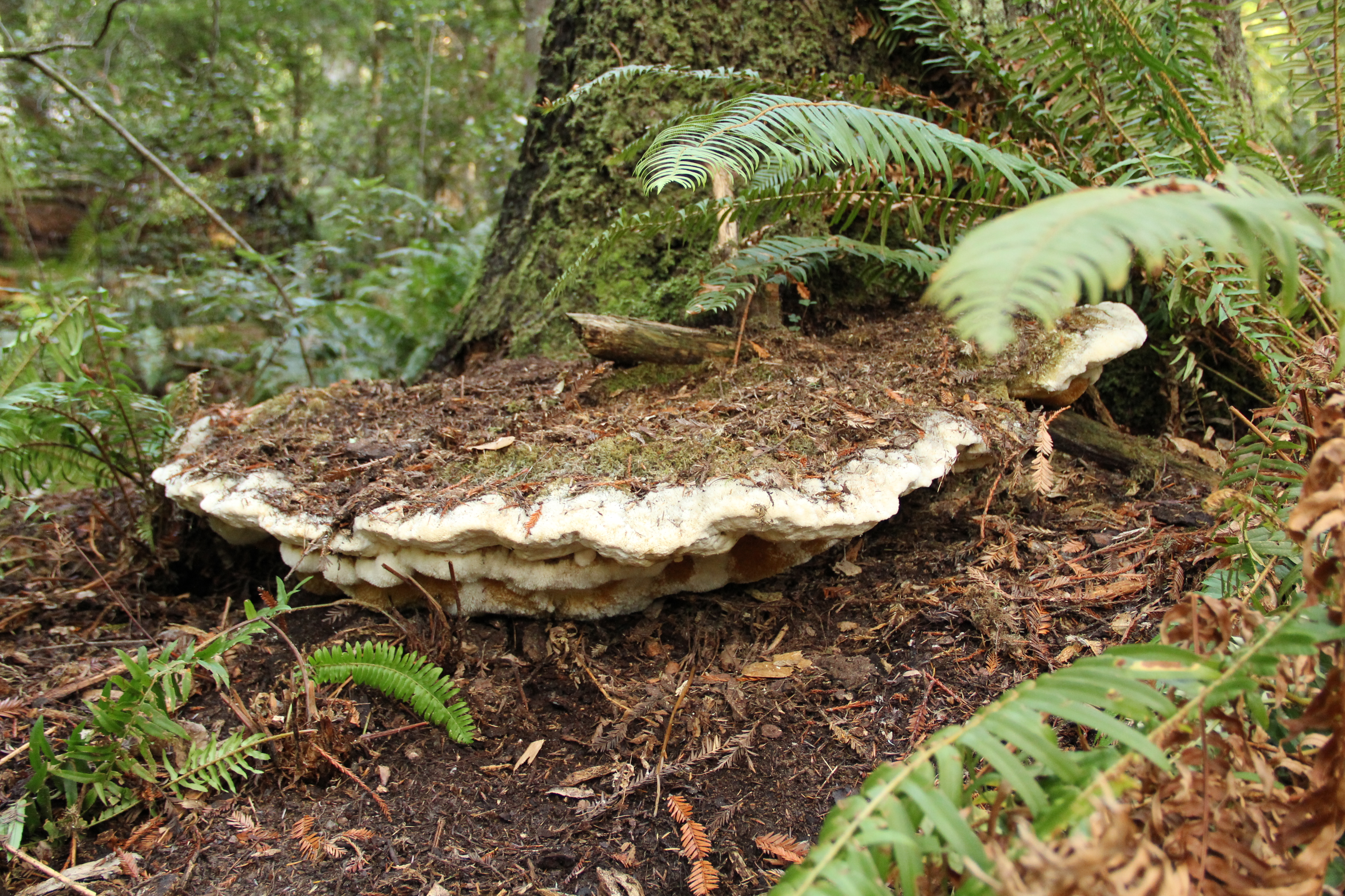 Fruitbody of the bracket fungus Bridgeoporus nobilissimus (W.B.Cooke) T.J. Volk, Burds. & Ammirati. Specimen photographed in Humboldt Co., California, USA.